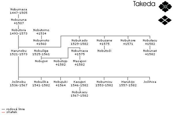 Family tree of Takeda Shingen